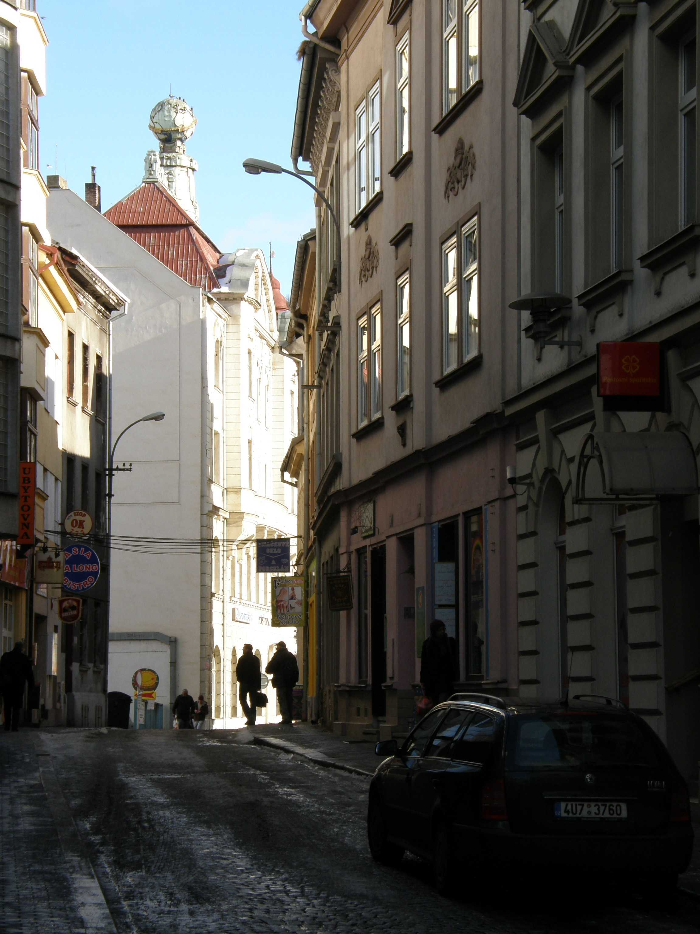 Ústí nad Labem city centre street.